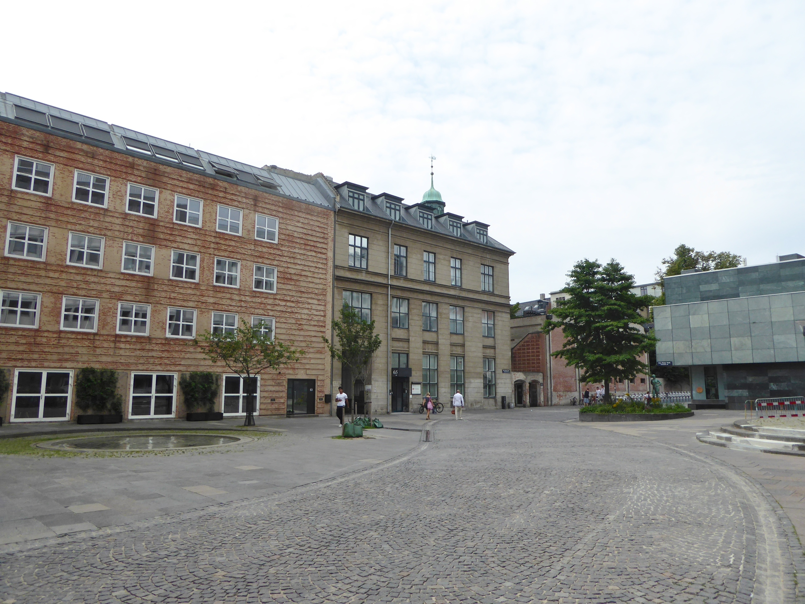 The square Nina Bangs Plads in Indre By in Copenhagen.